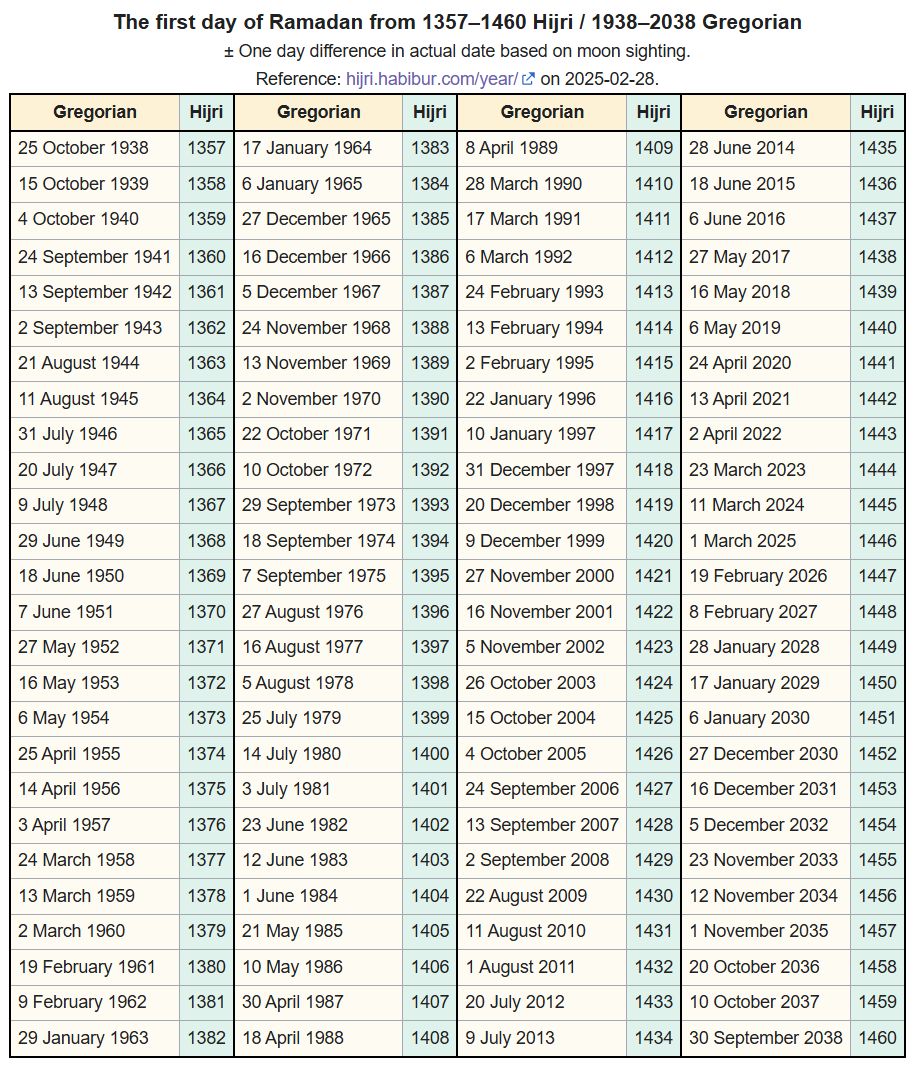 A schedule showing the beginning of the Holy month of Ramadan for 100 years from 1938-2038 AD and the equivalent years in Hijri 1357-1460.